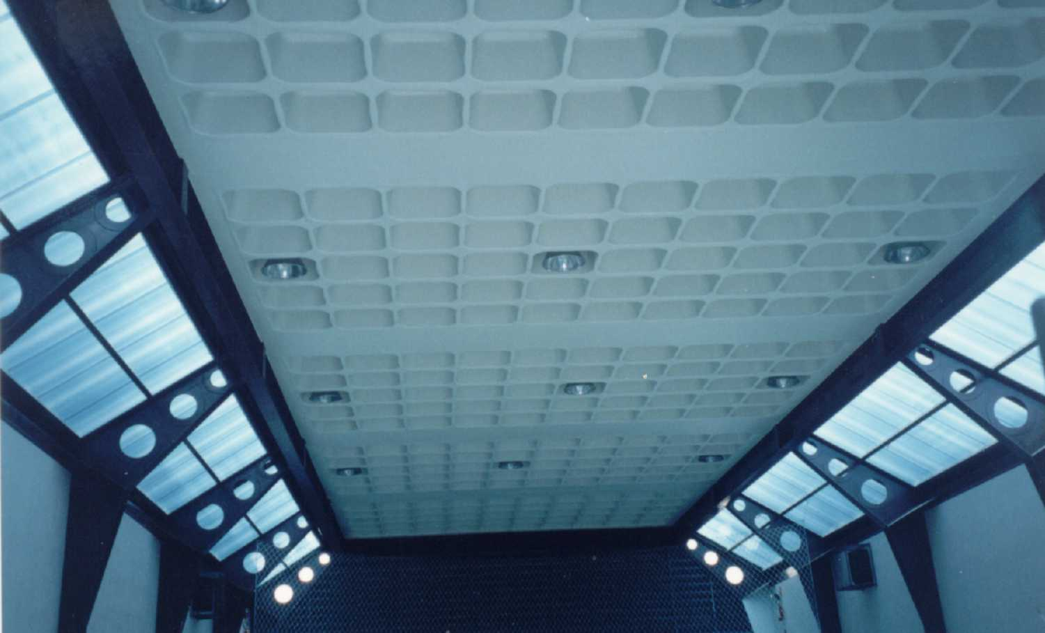 Finalização